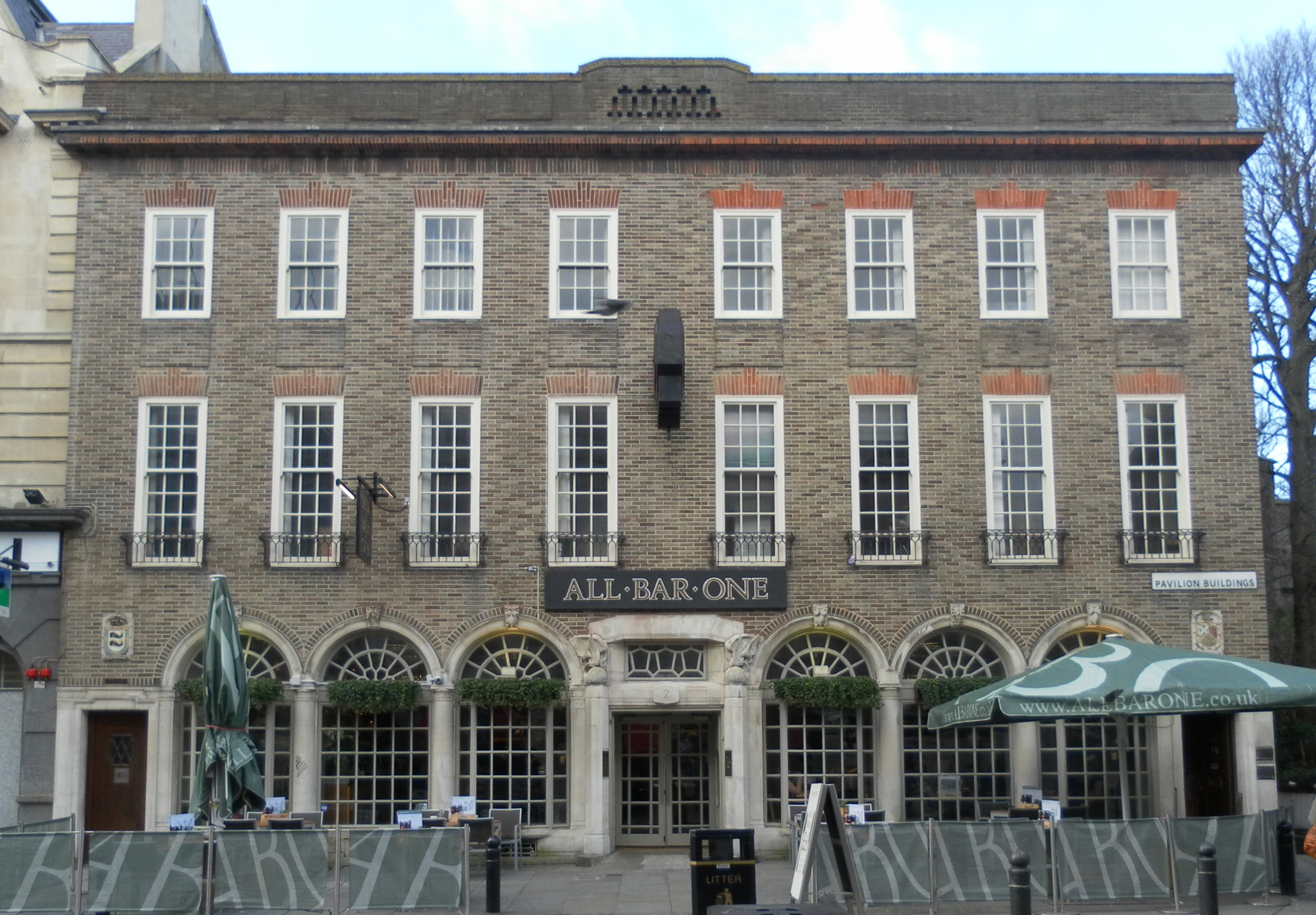 The former offices of the Brighton & Hove Herald newspaper, Pavilion Buildings, Brighton, City of Brighton and Hove, England. Designed in a Neo-Georgian style in 1933 by John Leopold Denman. Became the HA HA Bar and Grill, then the All Bar One bar and restaurant.